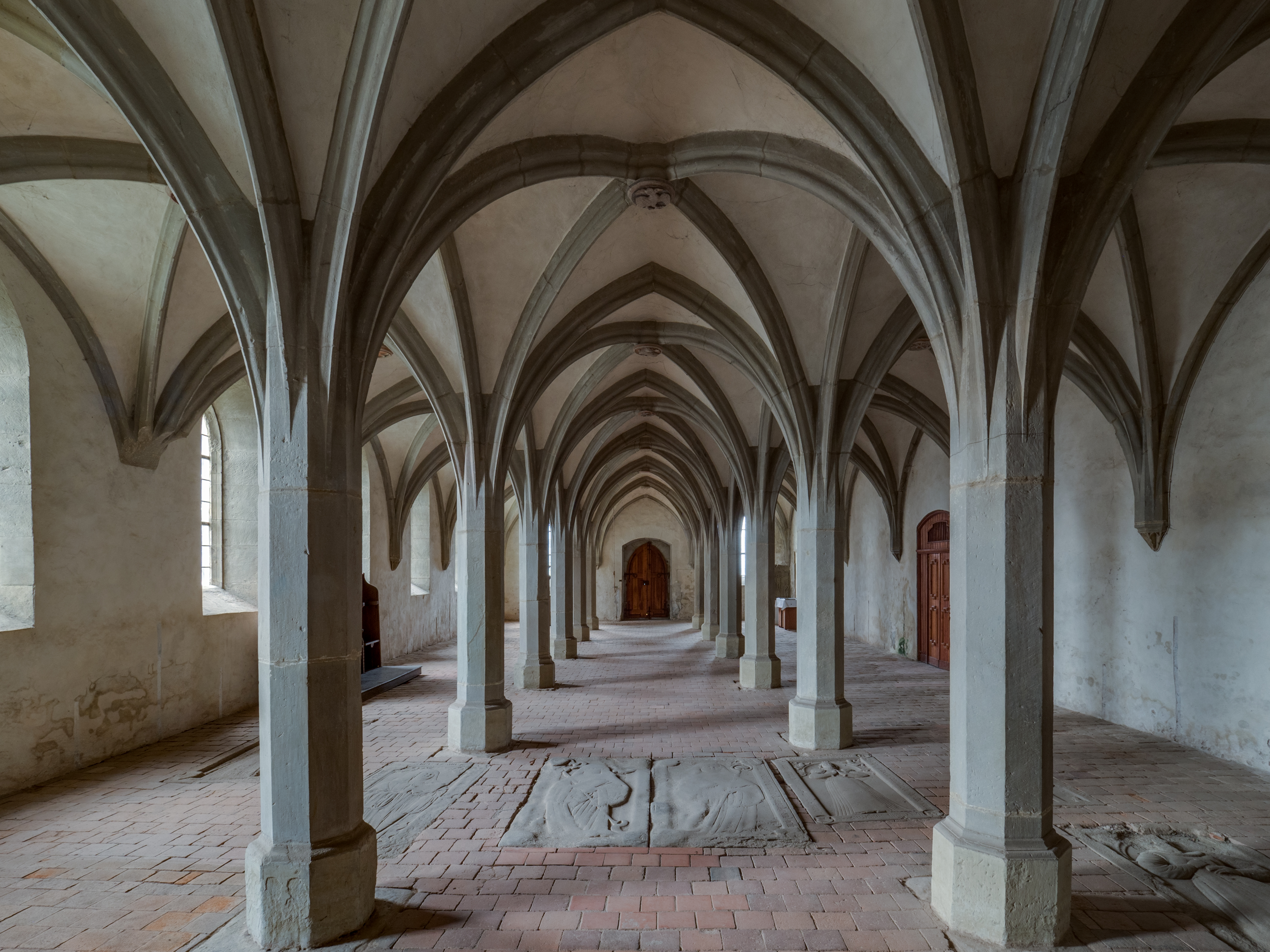 Crypt in the monastery church Mariaburghausen